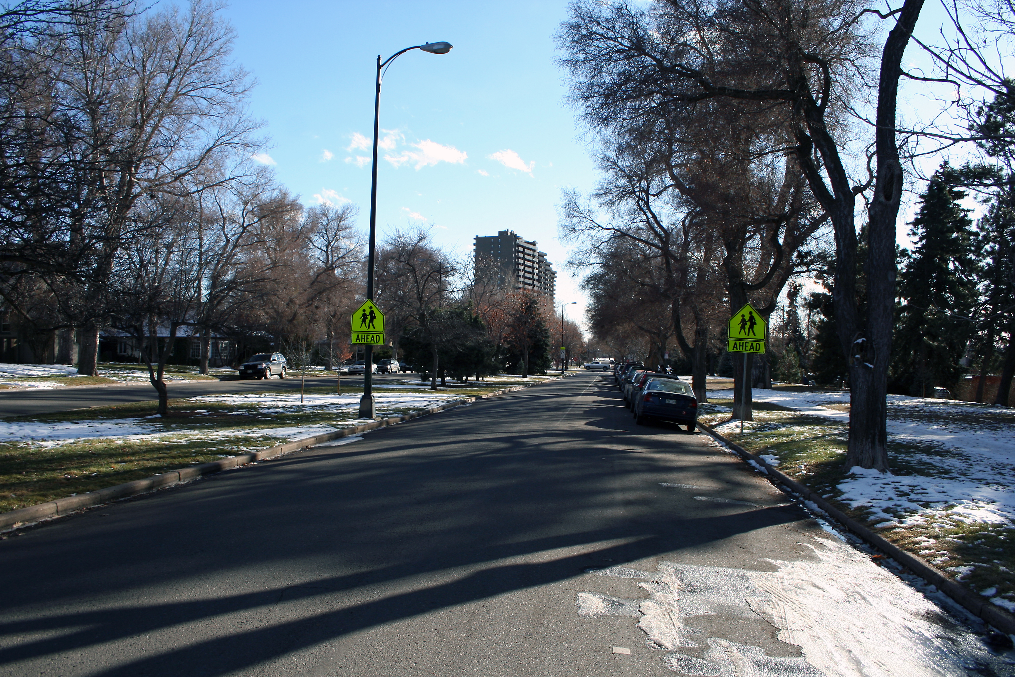 South Marion Parkway, a historic district in Denver, Colorado, USA